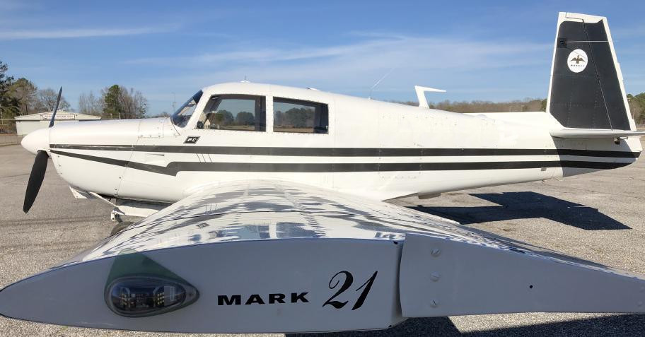 Clean example of a 1967 Mooney M20C. Photo taken at Arthur field, Fayette, Alabama, February, 2020.